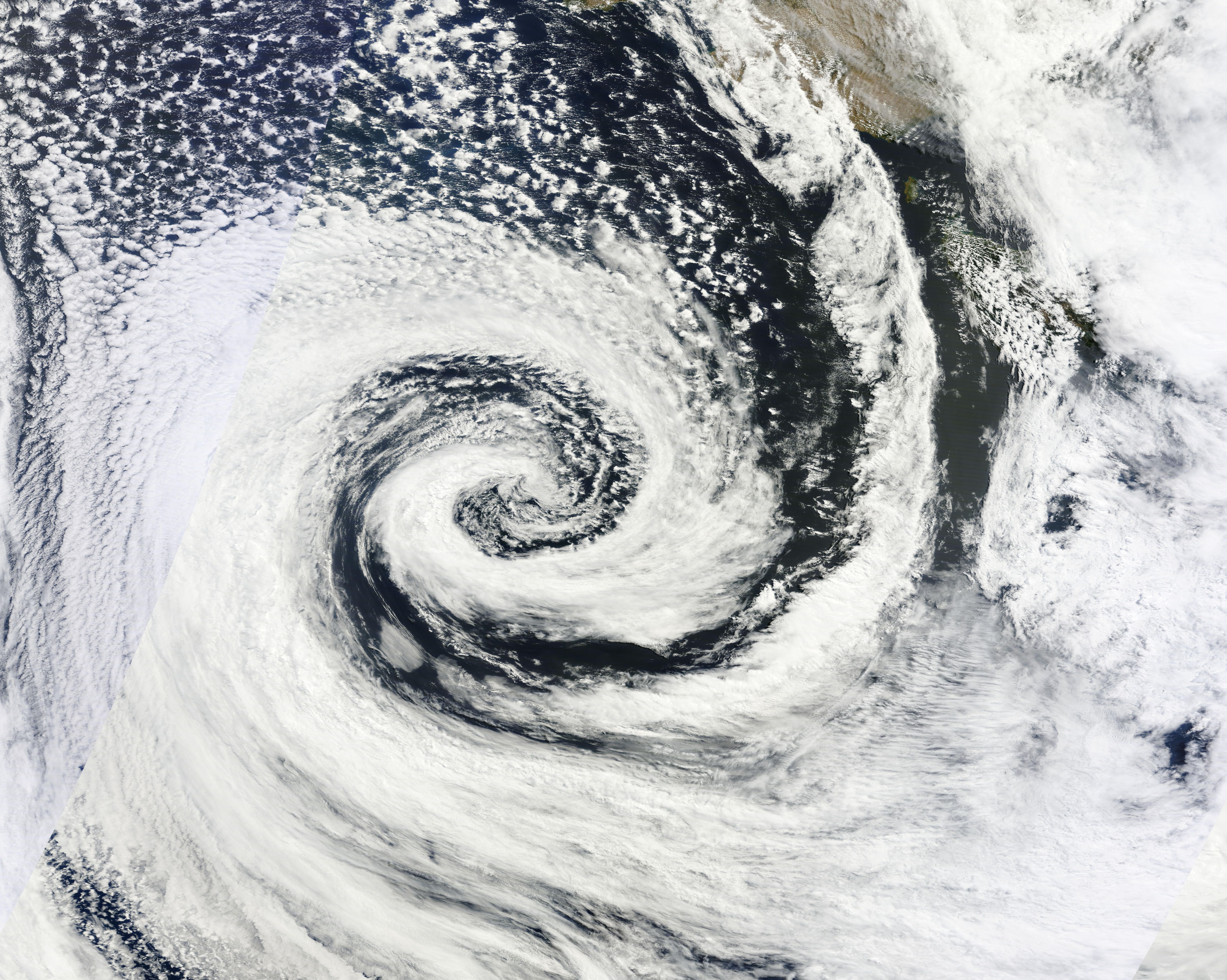 An extratropical cyclone located south of Australia on February 08, 2012